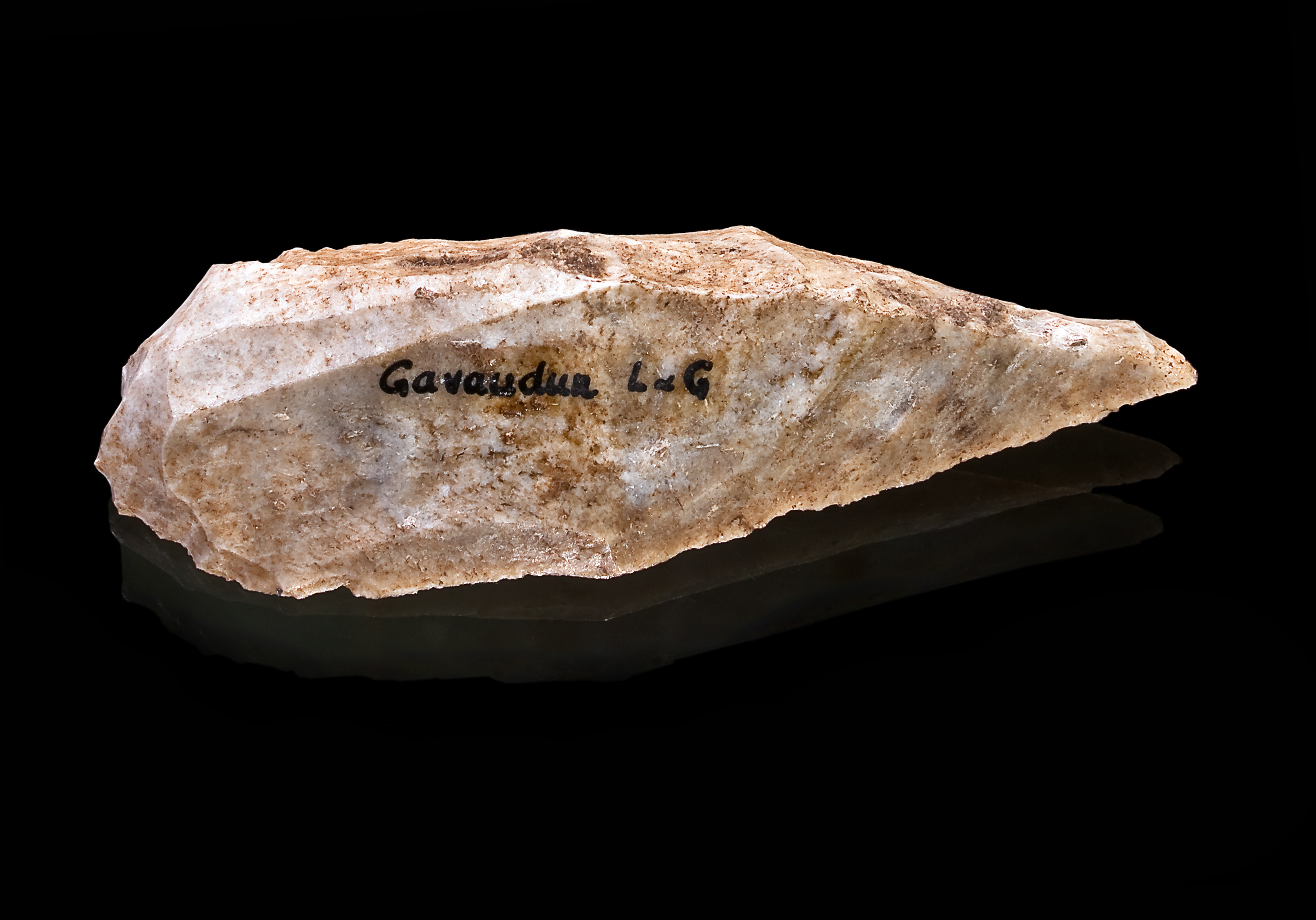 scraper